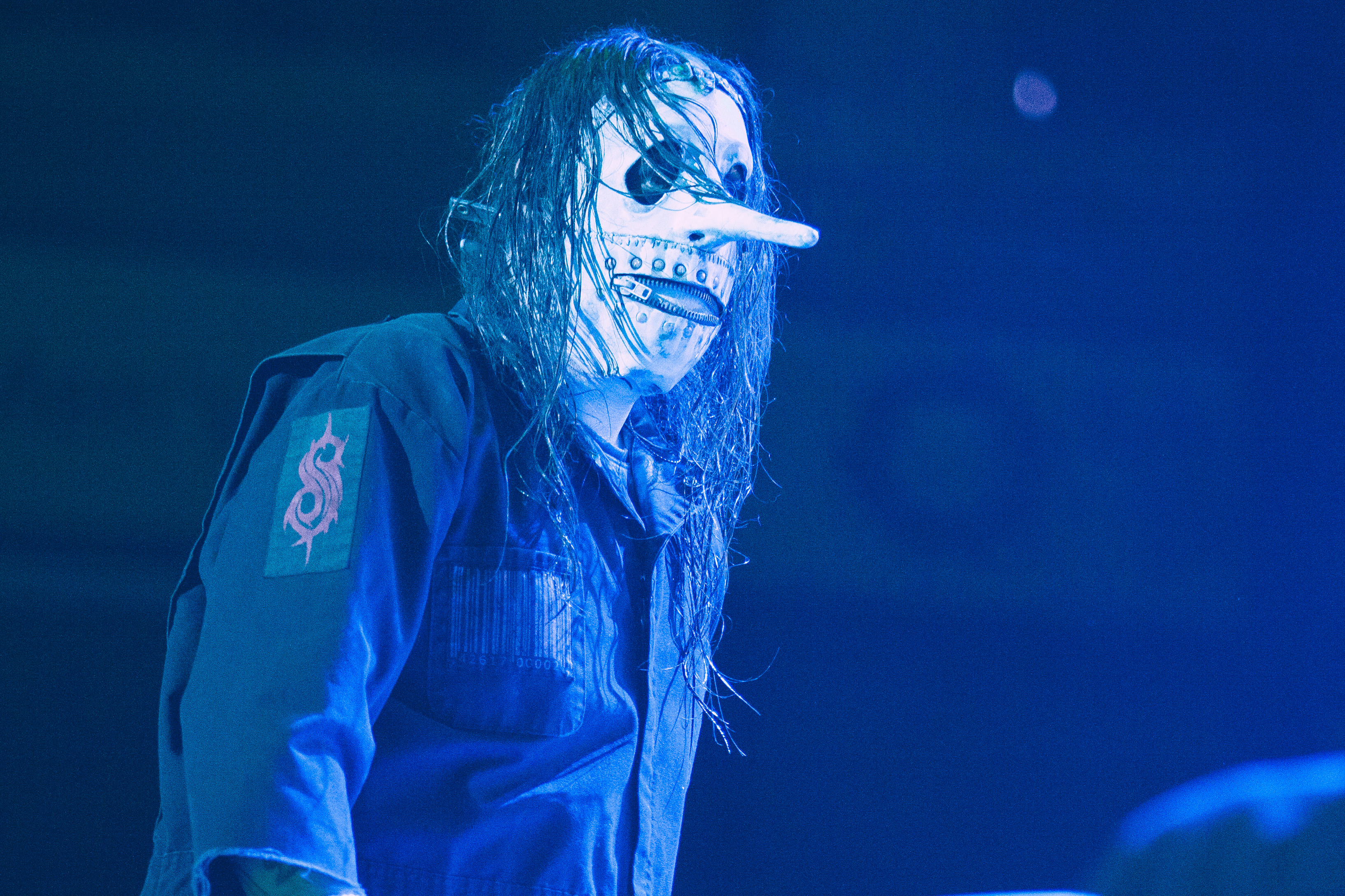 Slipknot on The Grey Chapter Tour (2016), ISS Dome, Düsseldorf (DEU) /// leokreissig.de for Wikimedia Commons